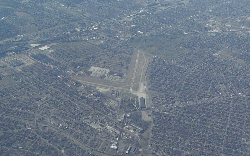 Aerial view of Detroit City Airport